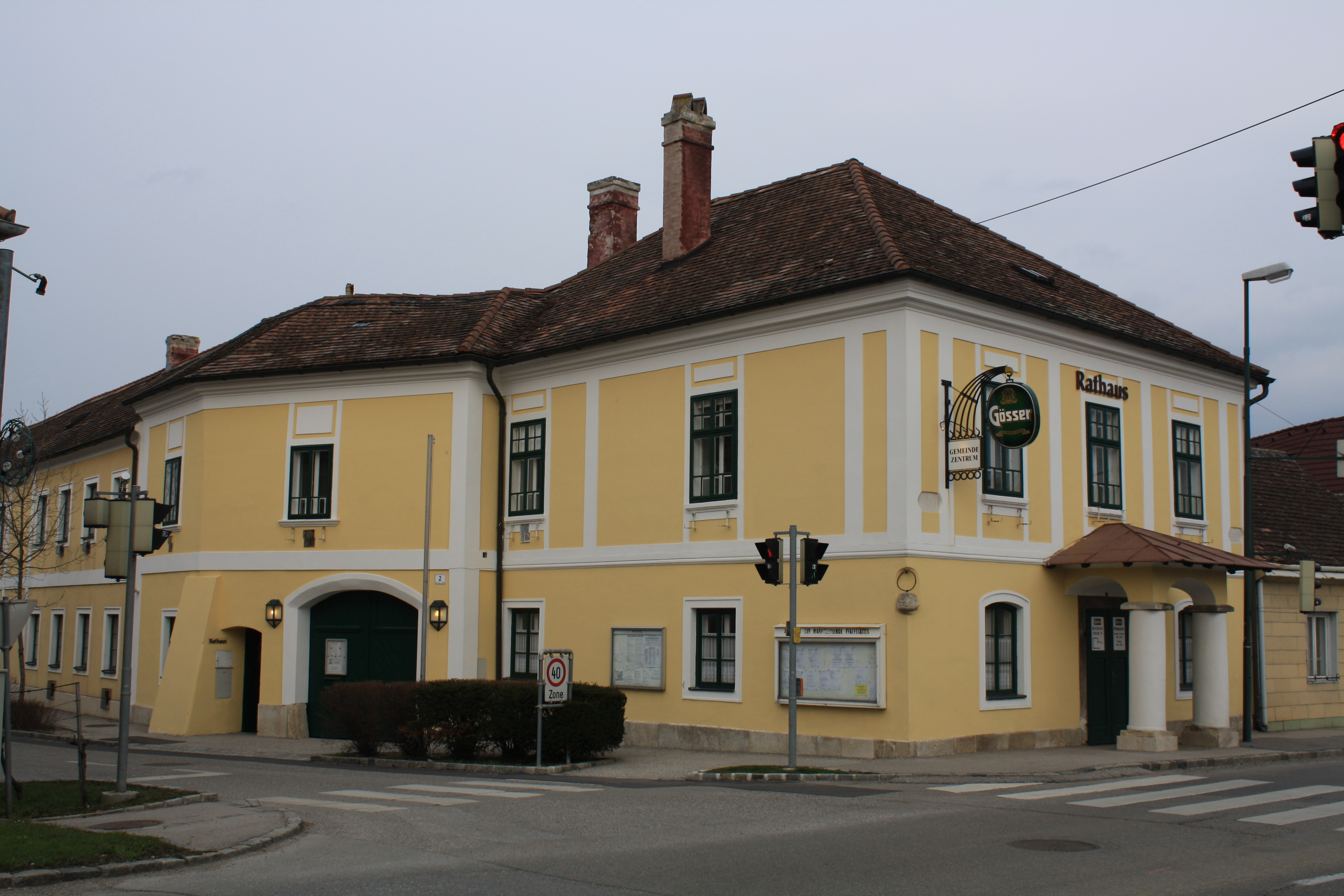 Town hall in Pfaffstätten, Lower Austria